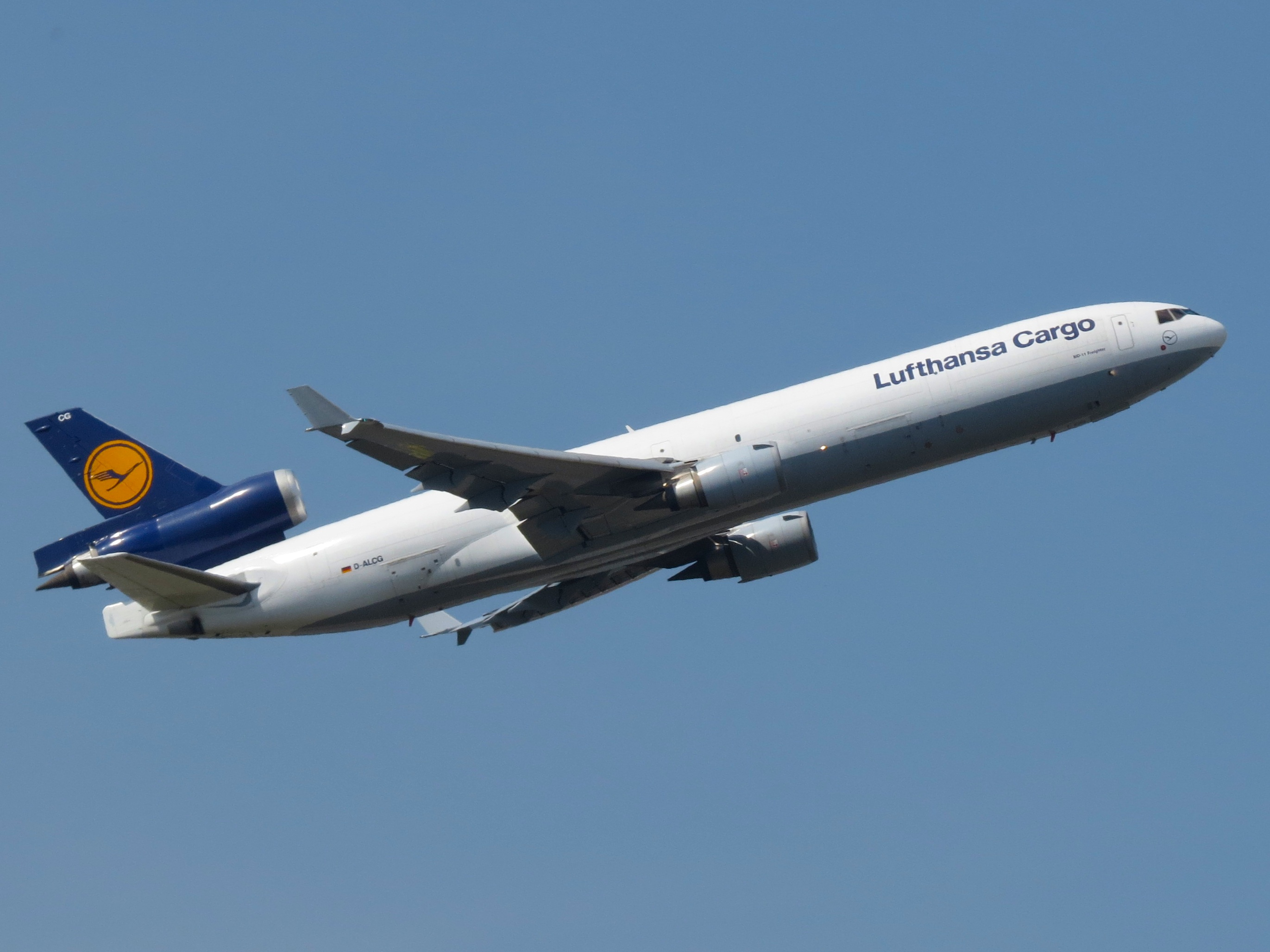 Lufthansa Cargo McDonnell Douglas MD-11F